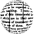 Old wikipedia logo. The logo is made by superposing a phrase written by Lewis Caroll on a circle, using fisheye effect to simulate a sphere. The phrase is a quote from "Euclid and his Modern Rivals" by Lewis Carroll (Preface, page X), which says: "In one respect this book is an experiment, and may chance to prove a failure: I mean that I have not thought it necessary to maintain throughout the gravity of style which scientific writers usually affect, and which has somehow come to be regarded as an ‘inseparable accident’ of scientific teaching. I never could quite see the reasonableness of this immemorial law: subjects there are, no doubt, which are in their essence too serious to admit of any lightness of treatment – but I cannot recognise Geometry as one of them. Nevertheless it will, I trust, be found that I have permitted myself a glimpse of the comic side of things only at fitting seasons, when the tired reader might well crave a moment’s breathing-space, and not on any occasion where it could endanger the continuity of the line of argument."